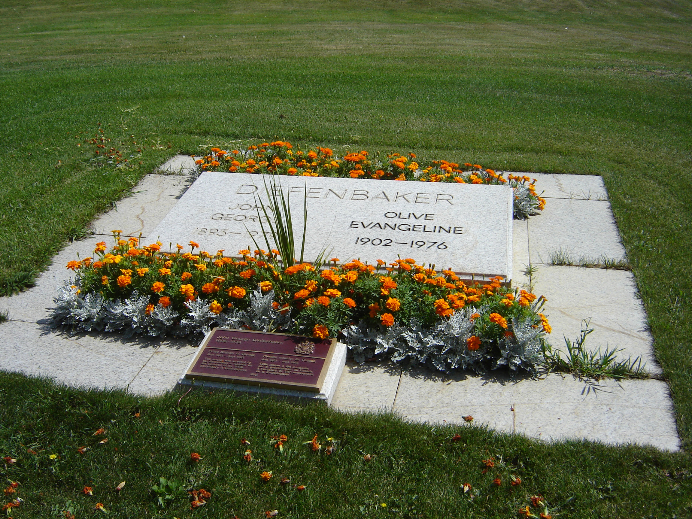 Olive Evangeline Diefenbaker and John Diefenbaker burial site at Diefenbaker Canada Centre, University of Saskatchewan